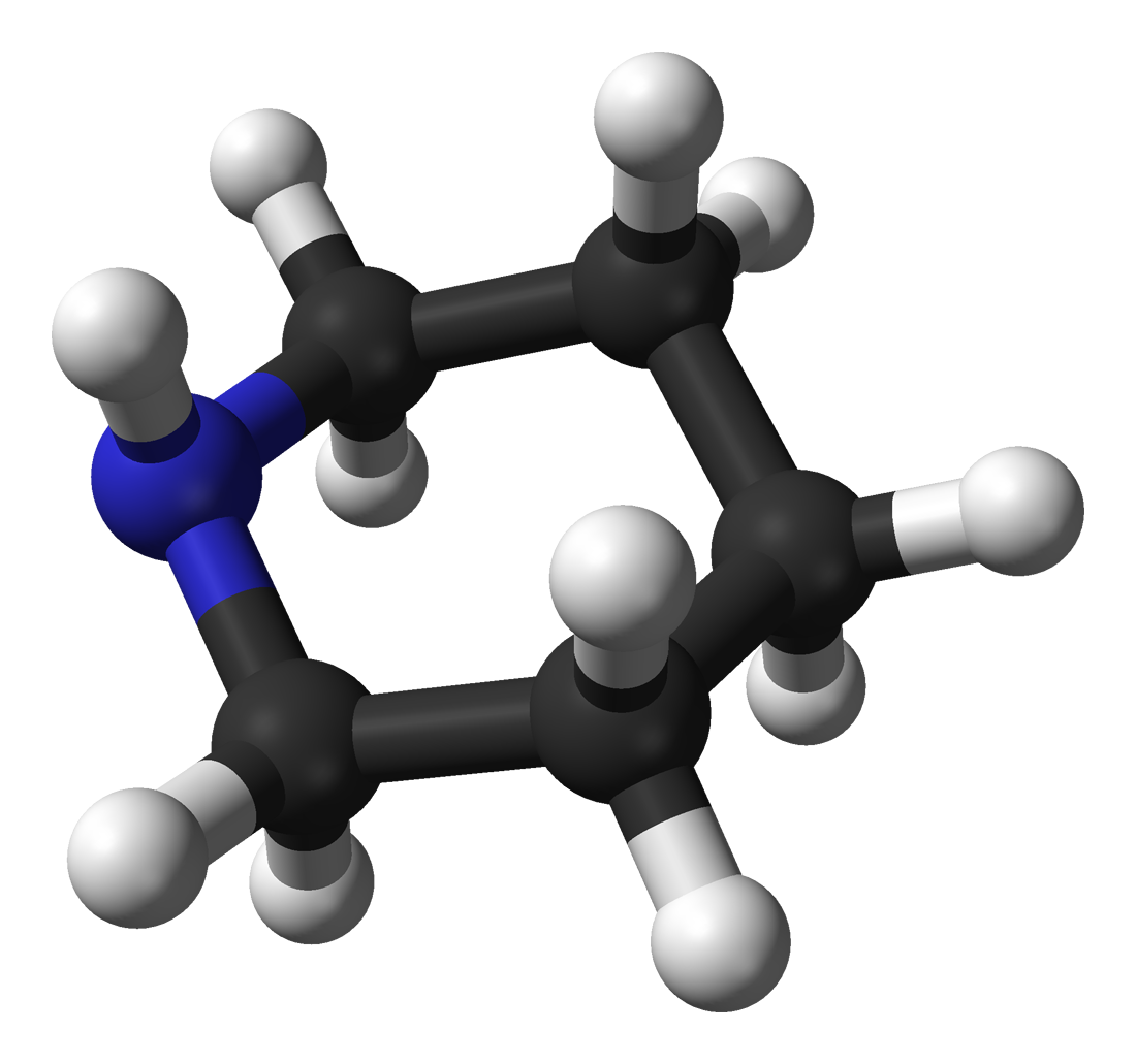 Ball-and-stick model of the piperidine molecule, C5H11N, in the axial conformation. Structure calculated in Spartan '04 Student Edition using Hartree-Fock/6-31G*. Image generated in Accelrys DS Visualizer.